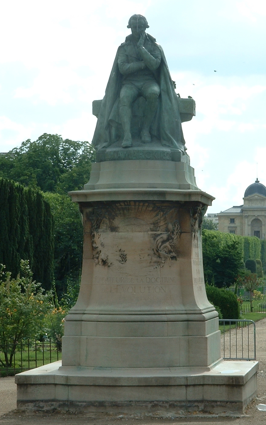 Statue of Jean-Baptiste Lamarck in the Jardin des Plantes, Paris. The inscription reads, "A Lamarck / Fondateur de la doctrine de l'evolution" (In honour of Lamarck / Founder of the doctrine of evolution).